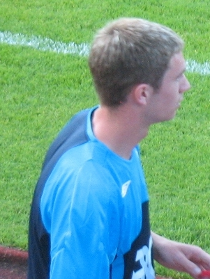 English footballer Jared Wilson of Birmingham City F.C. at the pre-season friendly against VfB Stuttgart in Zell am See, Austria